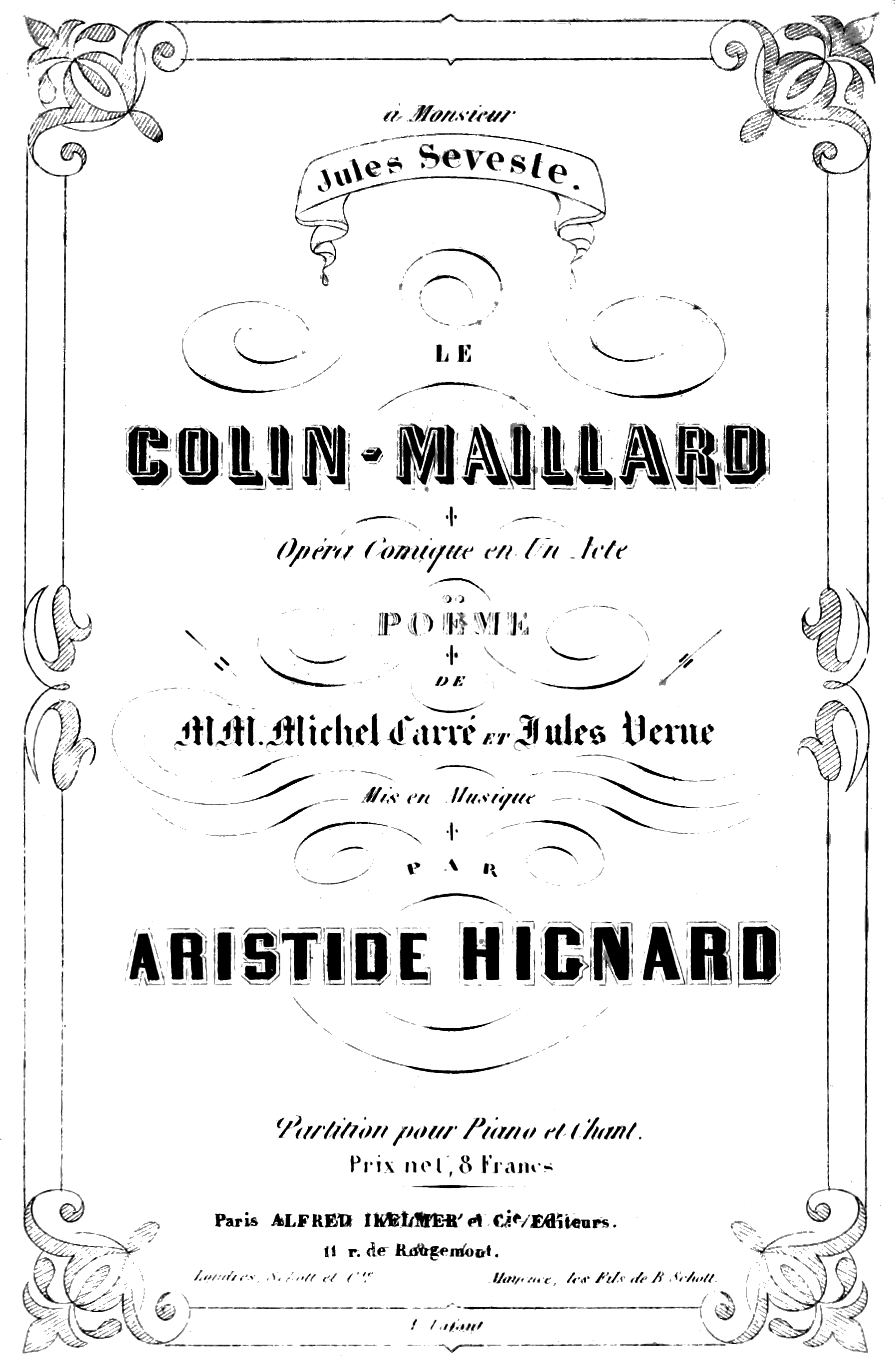 Hignard - Le Colin-maillard - title page of the piano score